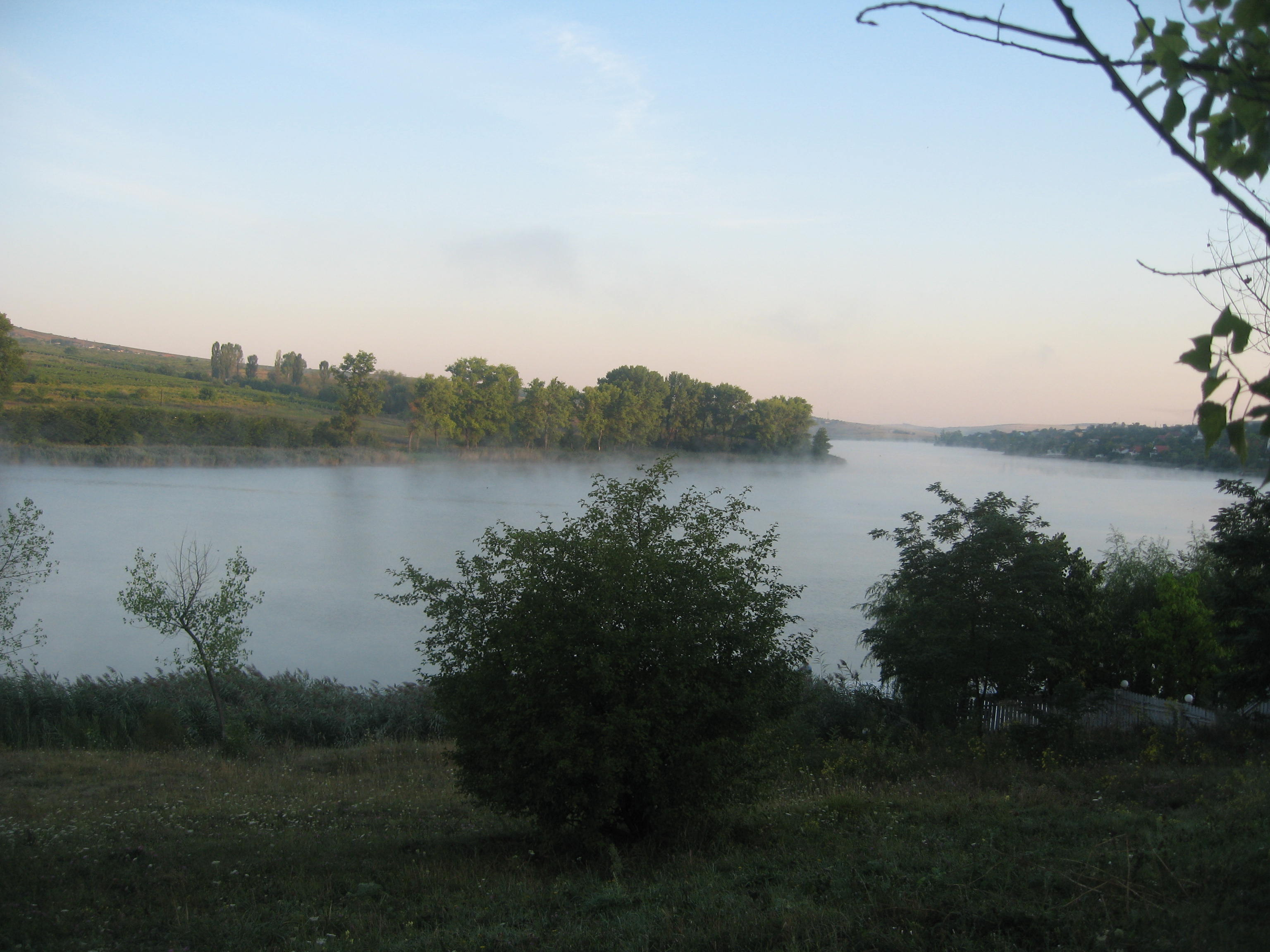 Lacul Dorobanţ